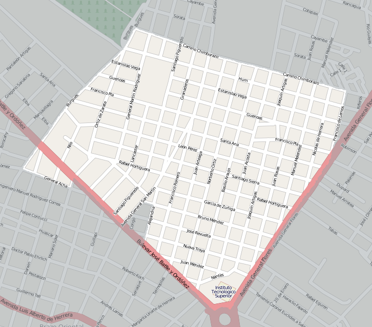 Street map of Cerrito de la Victoria, Montevideo, exported from OpenStreetMap. I added shading to delimit the barrio. This map may be incomplete, and may contain errors. Don't rely solely on it for navigation.